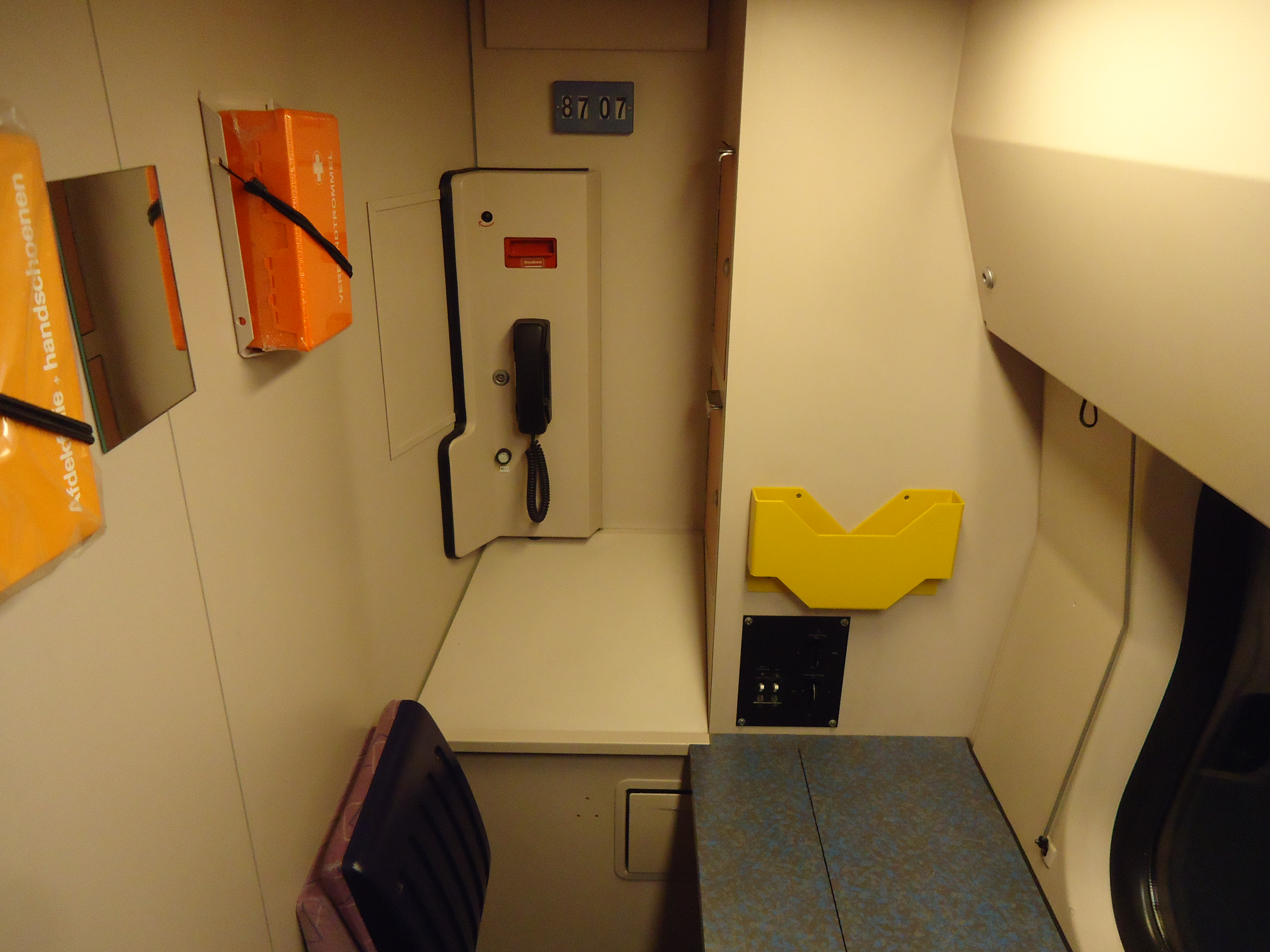 Conductors space on train